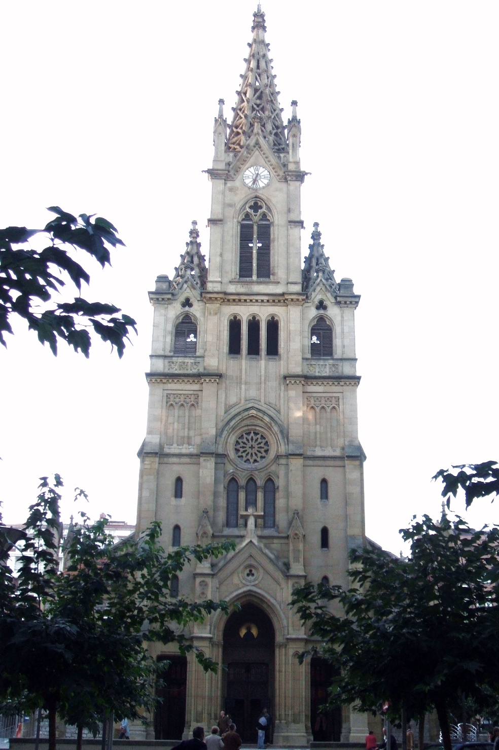 Iglesia de San Ignacio de Loyola, San Sebastián (Guipúzcoa, País Vasco, España)